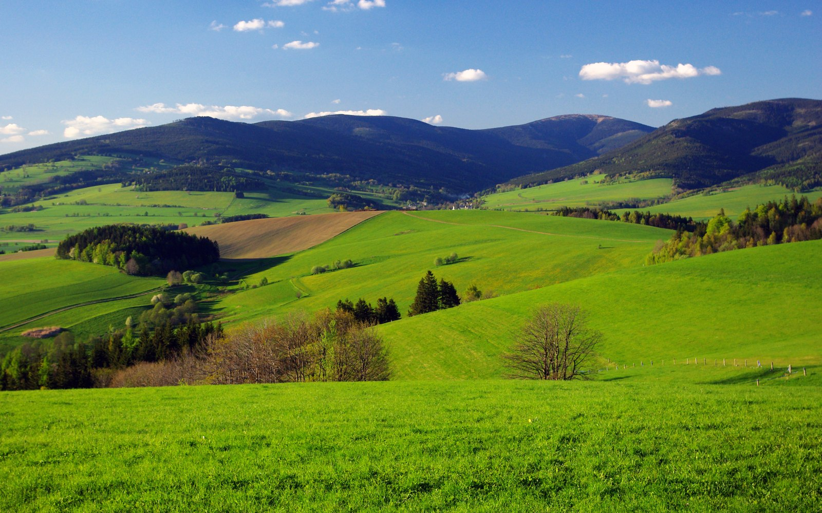 Kralicky Sneznik mountain